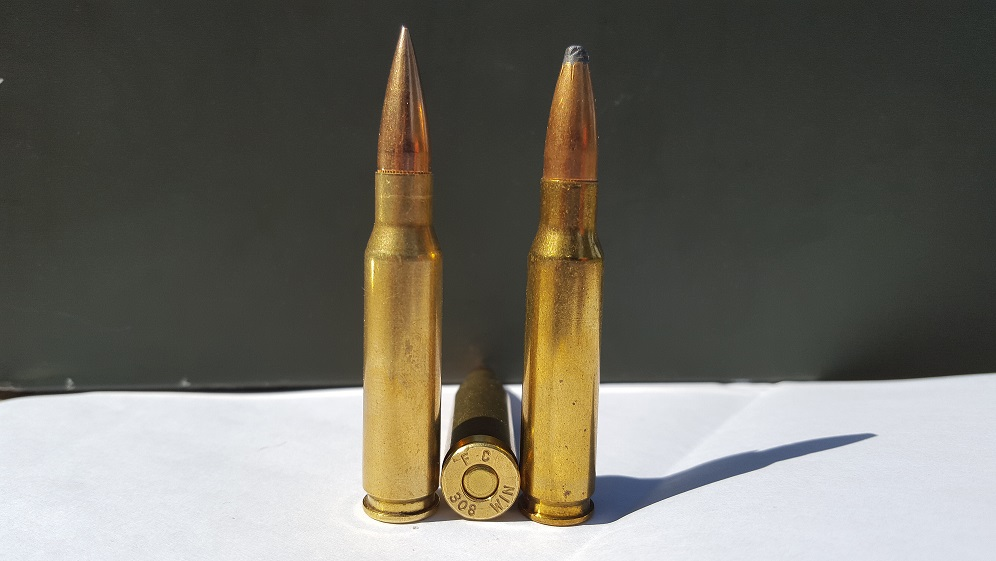 Three examples of .308 Winchester.